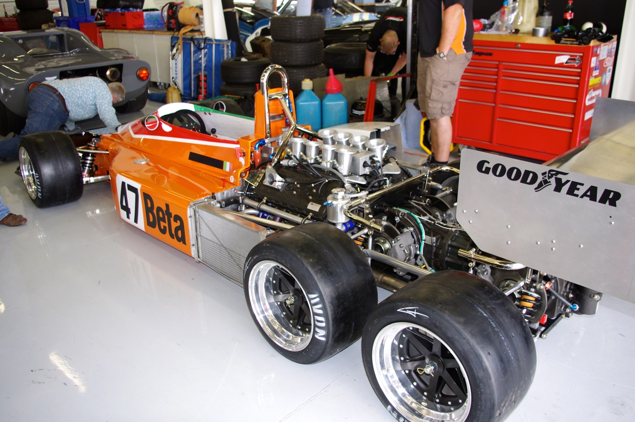 Silverstone Classic 2011